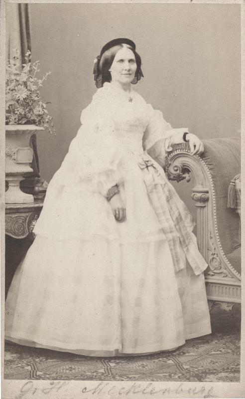 Prinzessin Auguste Reuss-Köstritz, Großherzogin von Mecklenburg